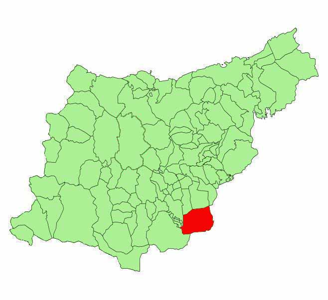 Enirio-Aralar Community in the province of Guipuzcoa